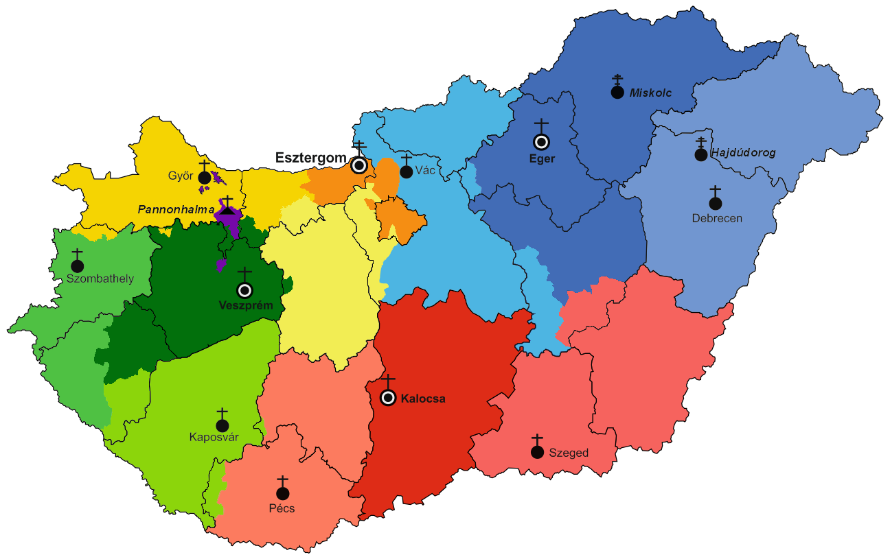 Map of the dioceses of the Hungarian Catholic Church. It consists of four archdioceses, each heading a province including two further suffragan dioceses: Esztergom-Budapest Székesfehérvár Győr Eger Debrecen-Nyíregyháza Vác Kalocsa-Kecskemét Pécs Szeged-Csanád Veszprém Szombathely Kaposvár There were two Hungarian Greek Catholic Dioceses: the Diocese of Hajdúdorog, then still suffragan of the Archdiocese of Esztergom-Budapest; and the Apostolic Exarchate of Miskolc which was eempt (directly subject of the Holy See). The map shows the Territorial Abbey of Pannonhalma in purple which is again direct subject of the Holy See.